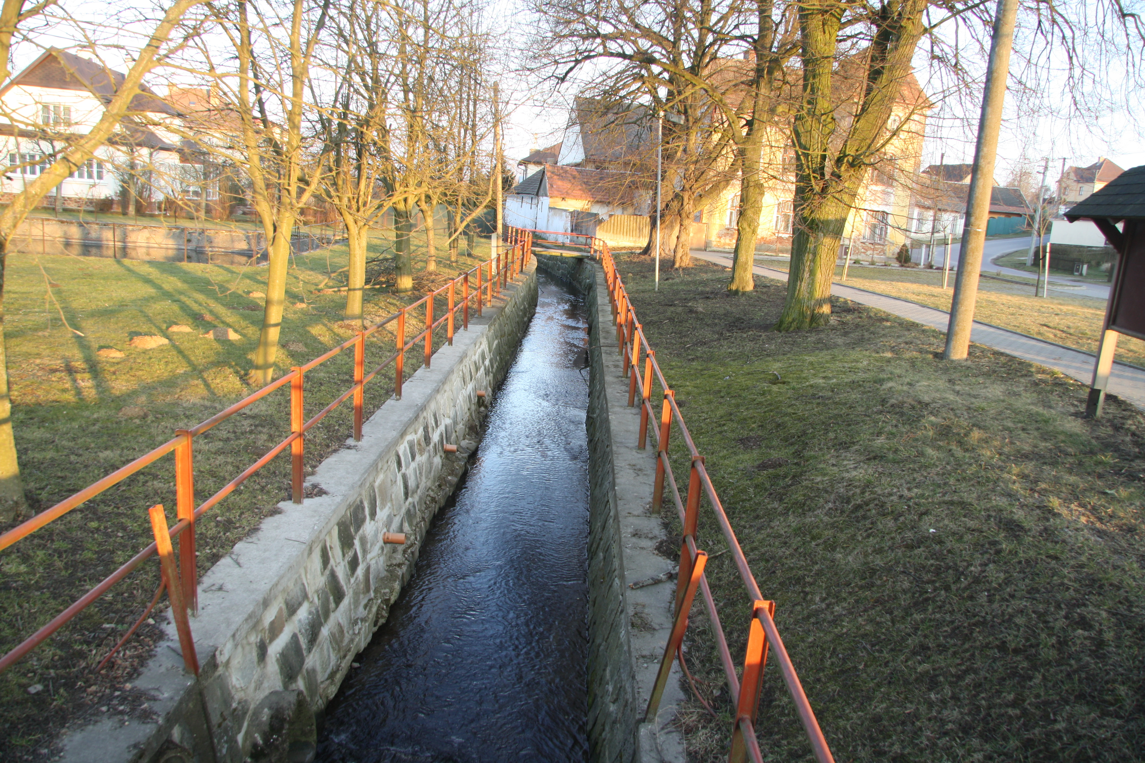 Rokytka stream in Domamil, Třebíč District.